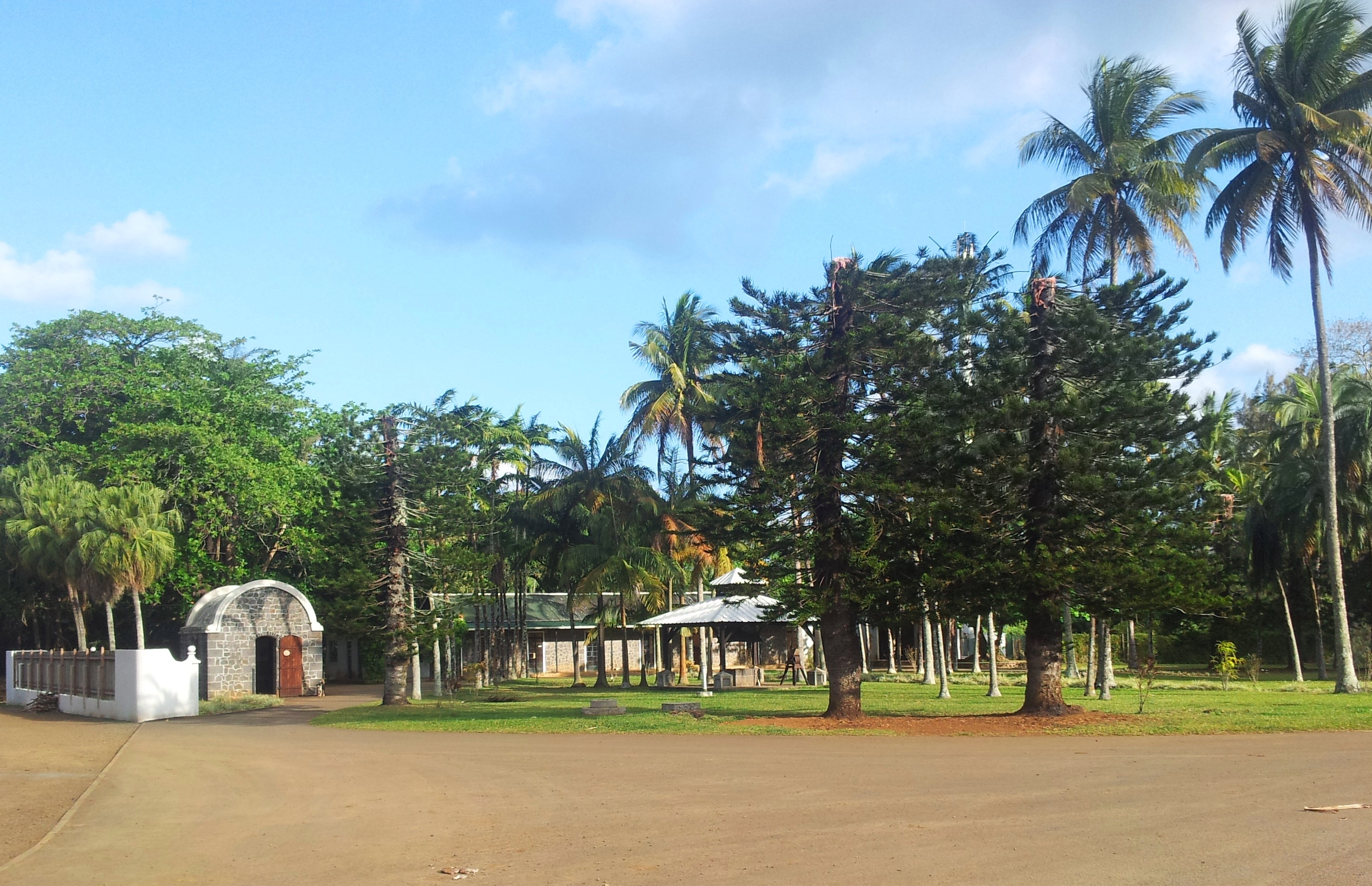 Old farm buildings in the Vallee Ferney Nature Reserve